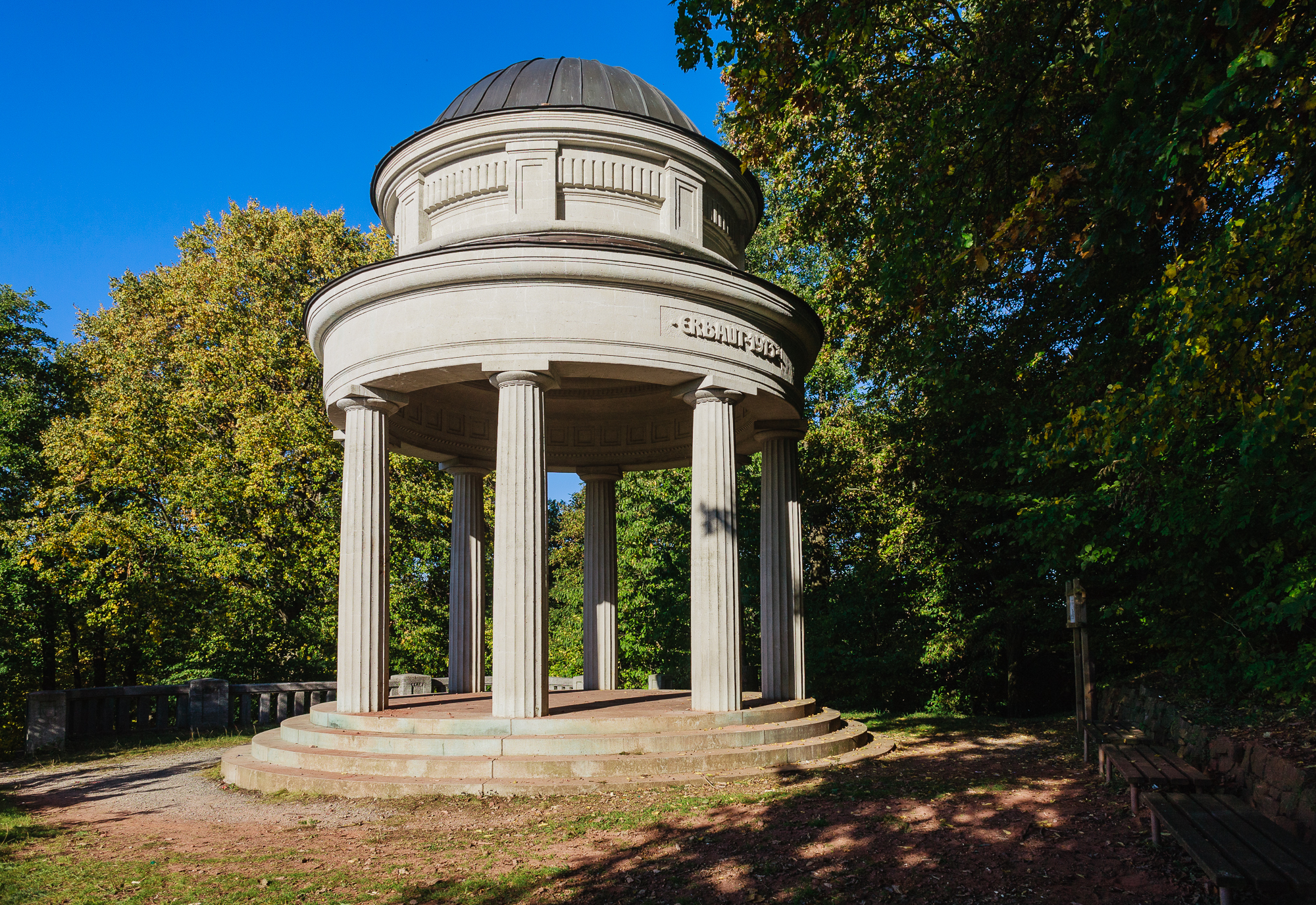 The Schäferhalle on the westside of the mountain Leuchtberg close to Eschwege is a pavilion style building in neoclassical architecture. It was built 1913 in thanks for a big donation (300.000 Marks) to the city of Eschwege by the manufacturer and patron Gustav Schäfer. The Schäferhalle is a local cultural heritage.